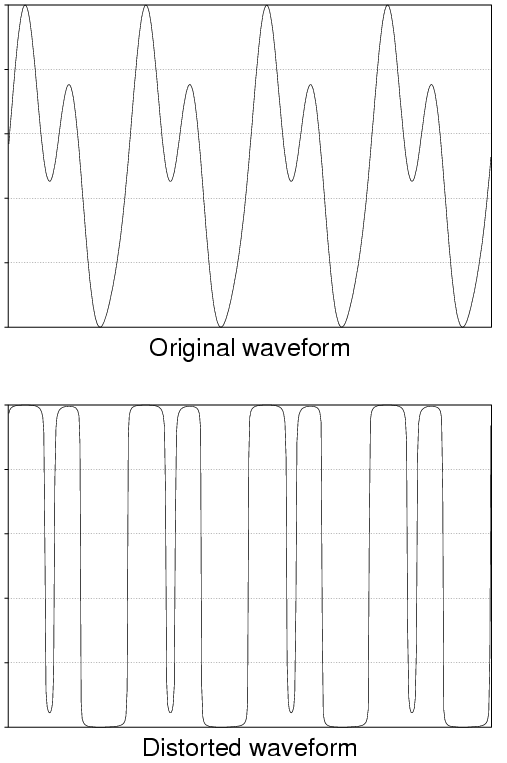 This image was made by me using Praat by synthesizing a waveform using some sine functions and using arctan function to distort it. The original function is: f(x)=sin(2*pi*200*x)+sin(2*pi*400*x+0.7)*0.7-cos(2*pi*600*x)*0.3 The distorted function is: d(x)=arctan(f(x)*50)*0.3